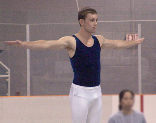 Picture of Jason Burnett, Canadian trampolinist, presenting before his routine at the Canada Cup competition in Hamilton, Ontario in August 2007. Trampqueen 01:20, 21 August 2007 (UTC)